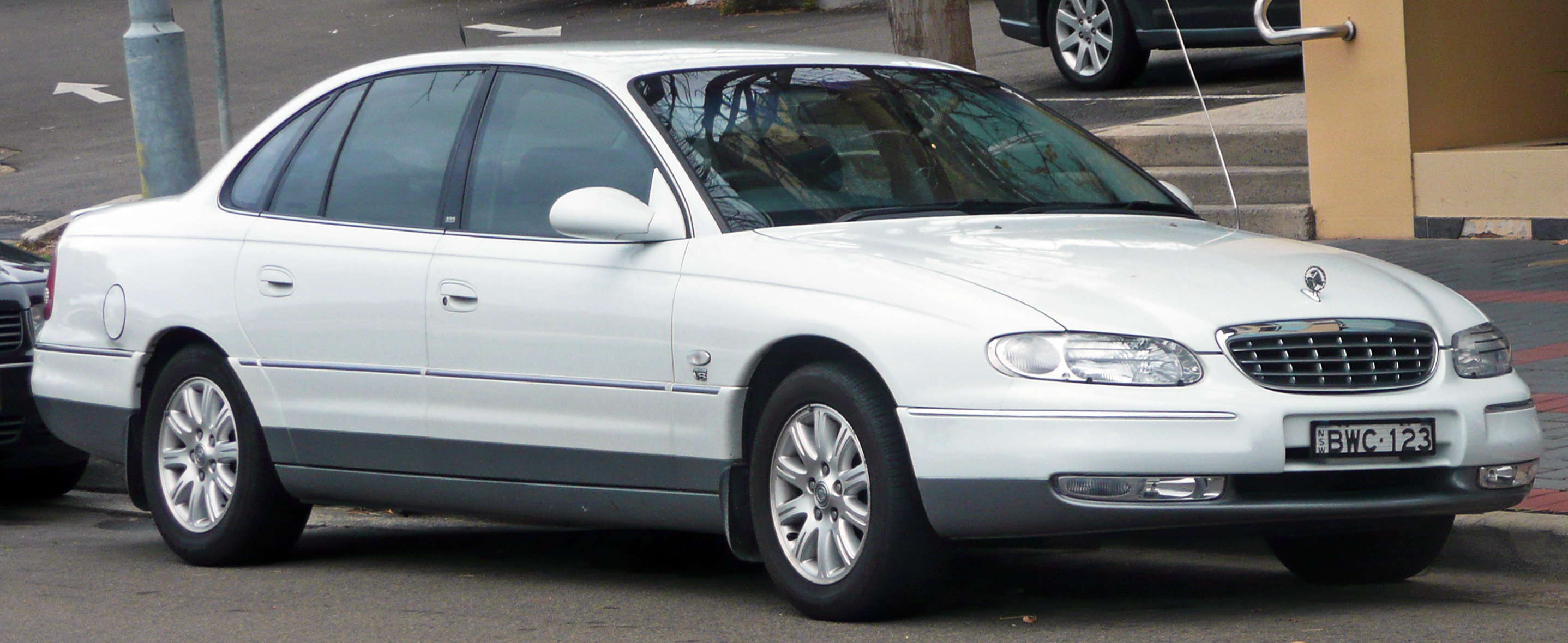 1999–2001 Holden WH Statesman sedan. Photographed in Caringbah, New South Wales, Australia.